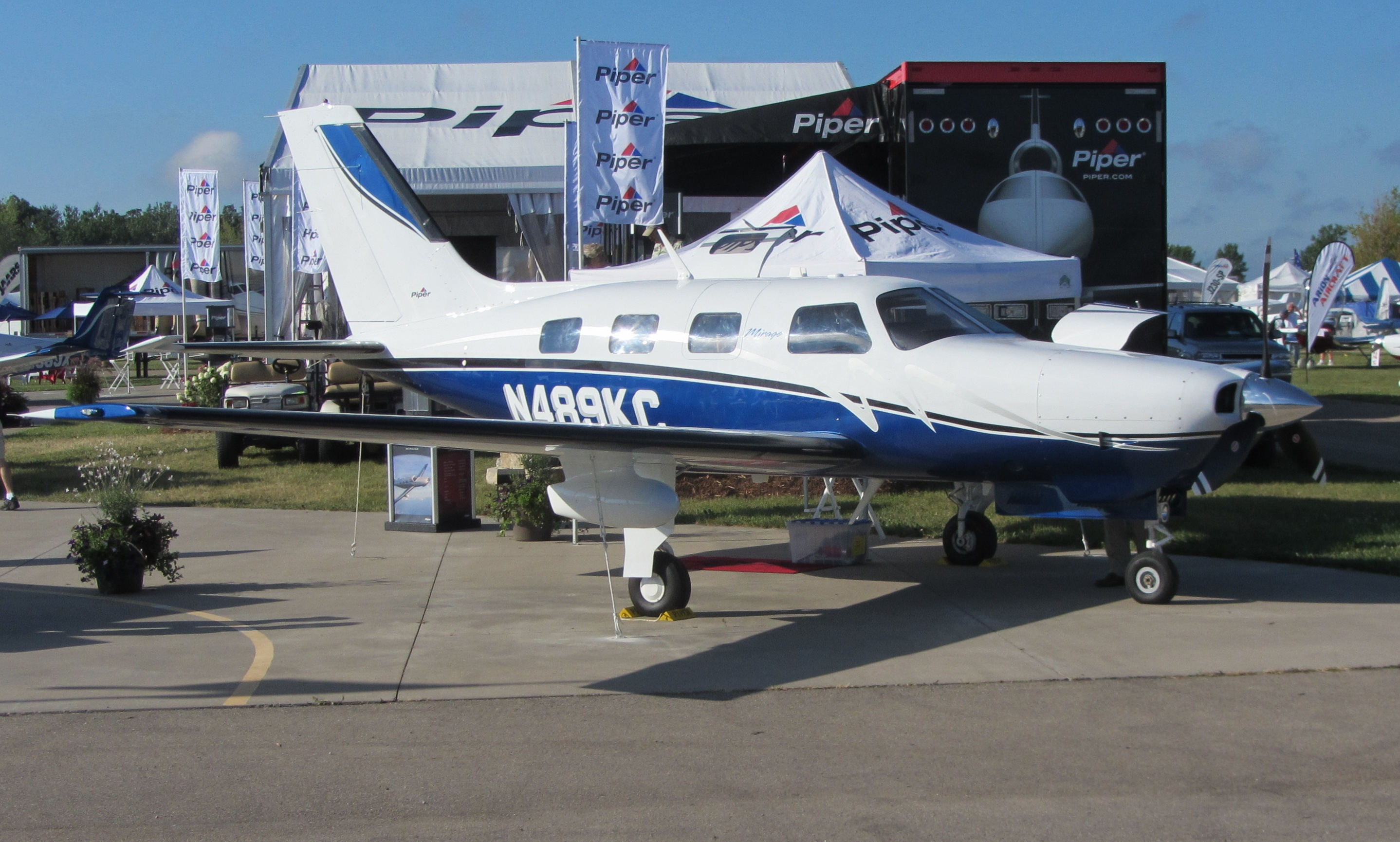 PA-46 Mirage